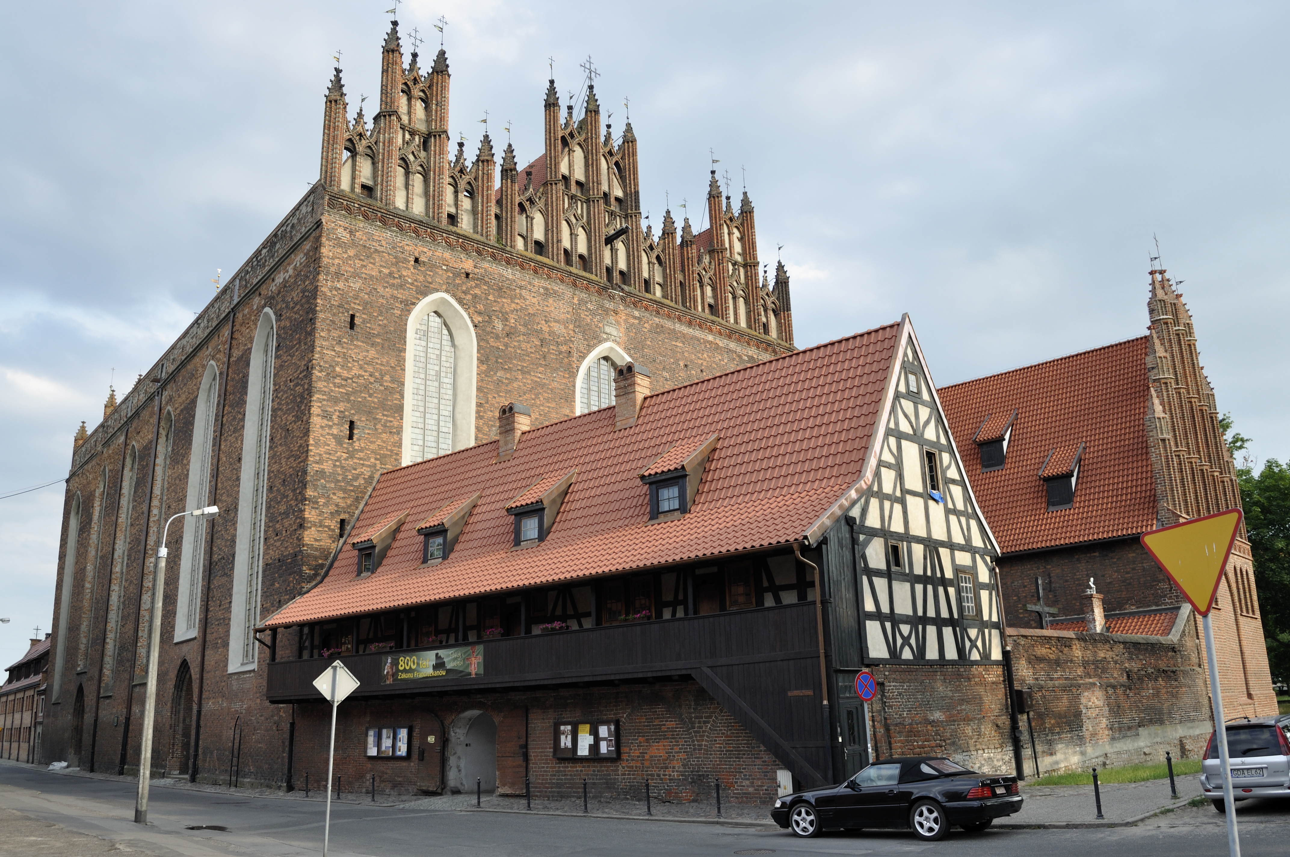 Church of Saint Trinity in Gdańsk (Picture taken in Gdańsk after Wikimania 2010 conference).